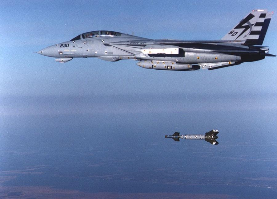 An F-14D Tomcat from the Naval Air Warfare Center at Patuxent River conducts a test drop of a laser-guided bomb.